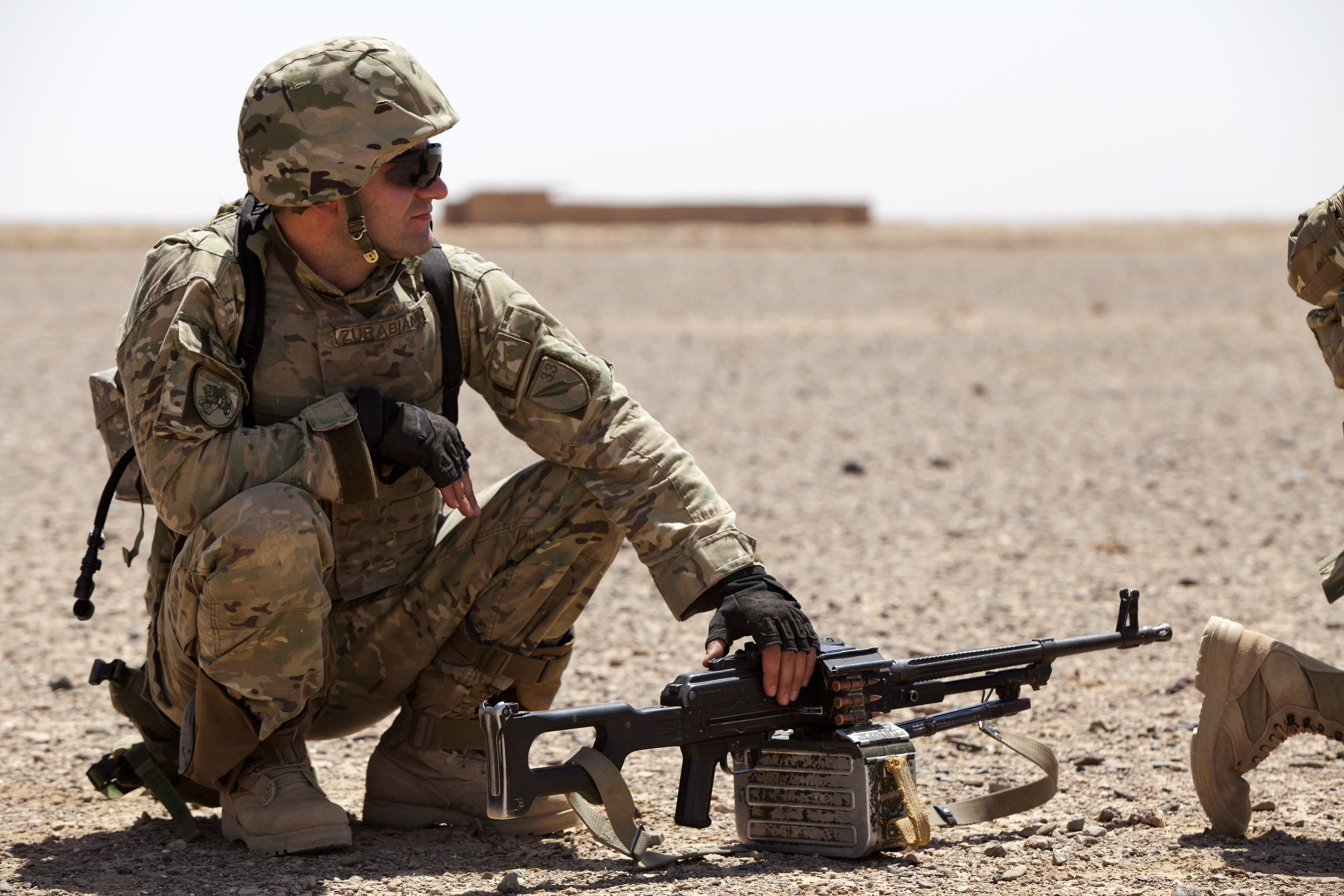 A Georgian Army soldier assigned to the 33rd Light Infantry Battalion waits at an extraction point for air transportation during Operation Northern Lion II in Helmand province, Afghanistan, July 3, 2013. Northern Lion II was a Georgian-led operation conducted to deter insurgents, establish a presence, and gather human intelligence in the area. (U.S. Marine Corps photo by Cpl. Alejandro Pena/Released)